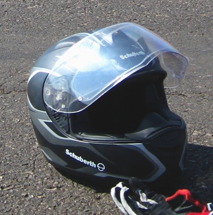 A Schuberth motorcycle helmet